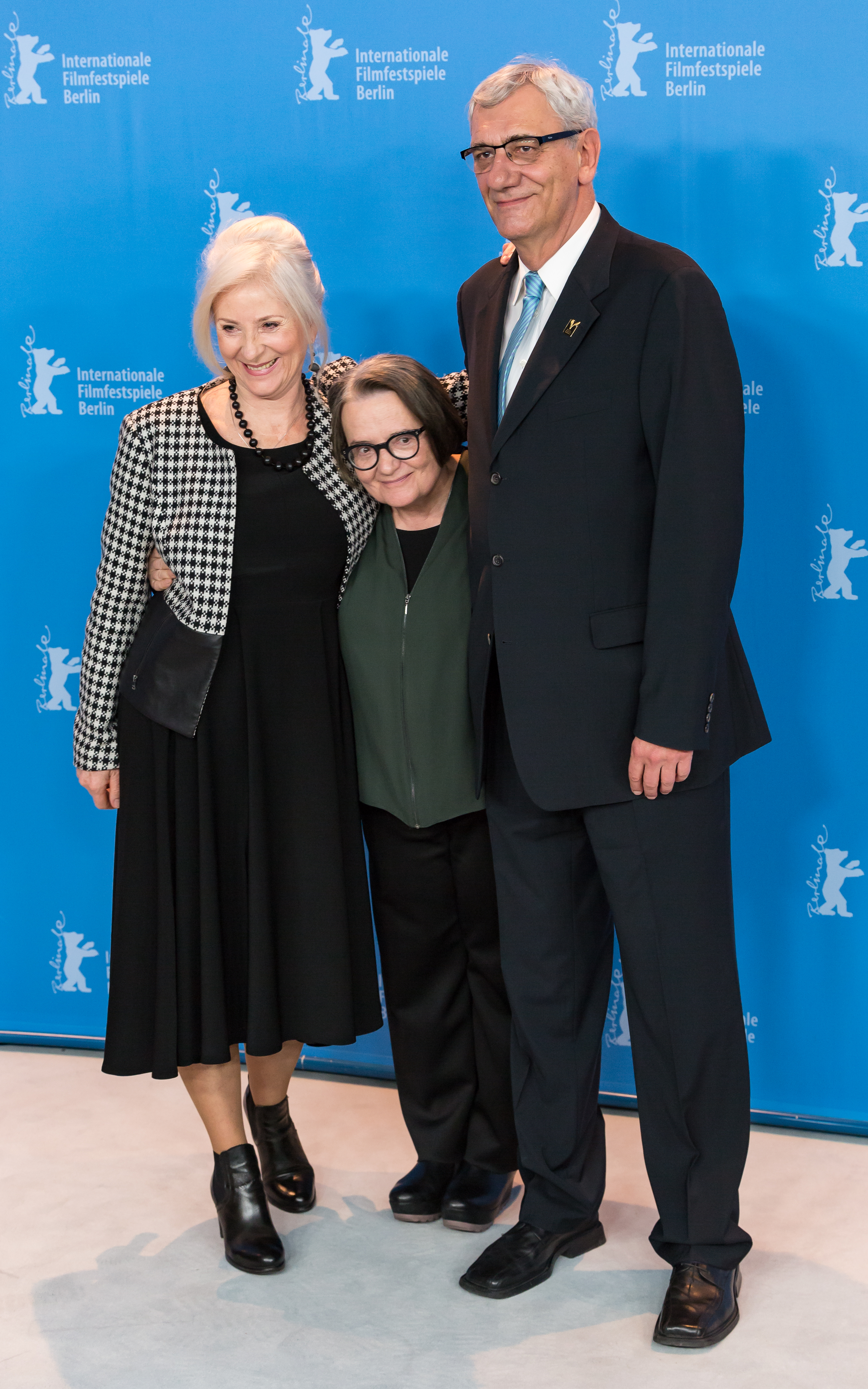 Agnieszka Mandat, Agnieszka Holland and Wiktor Zborowski at the presentation of the polish movie Spoor at the Berlinale 2017